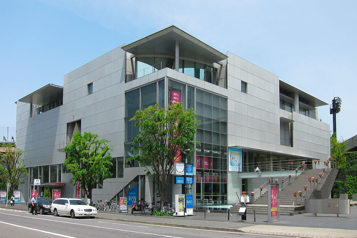 "TEPIA" Kits-Aoyama, Tokyo.